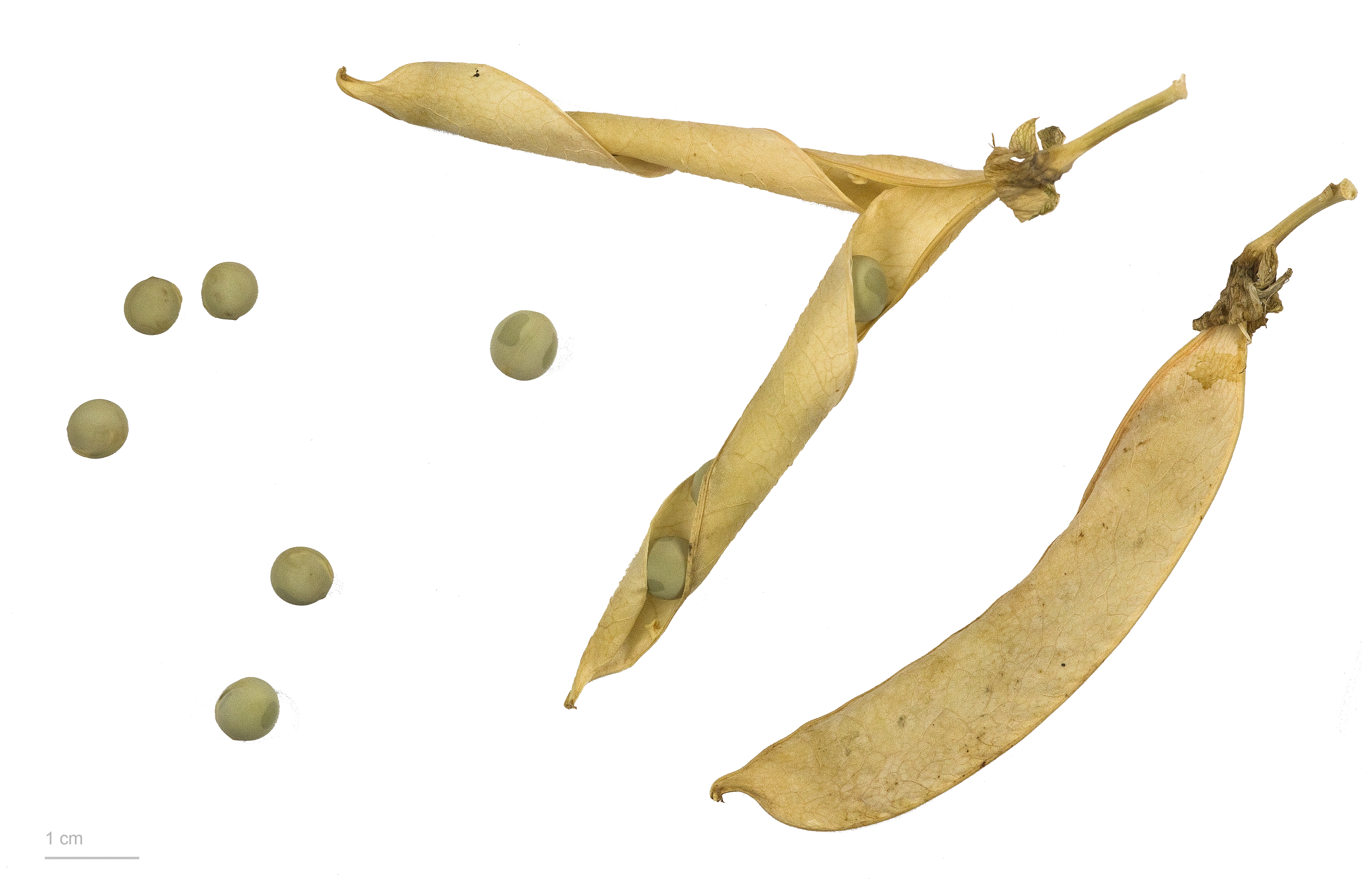 Pea , fruits and seeds